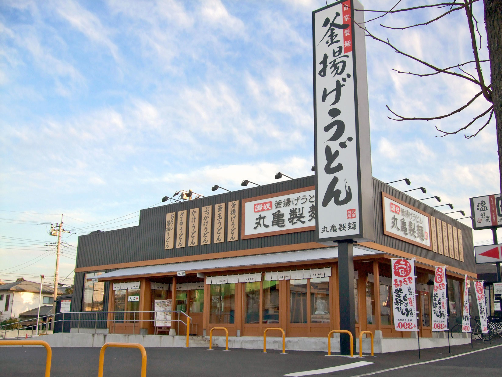 A Marukame Udon Matsudo Nijusseikigaoka noodle shop in Matsudo, Chiba Prefecture, Japan.